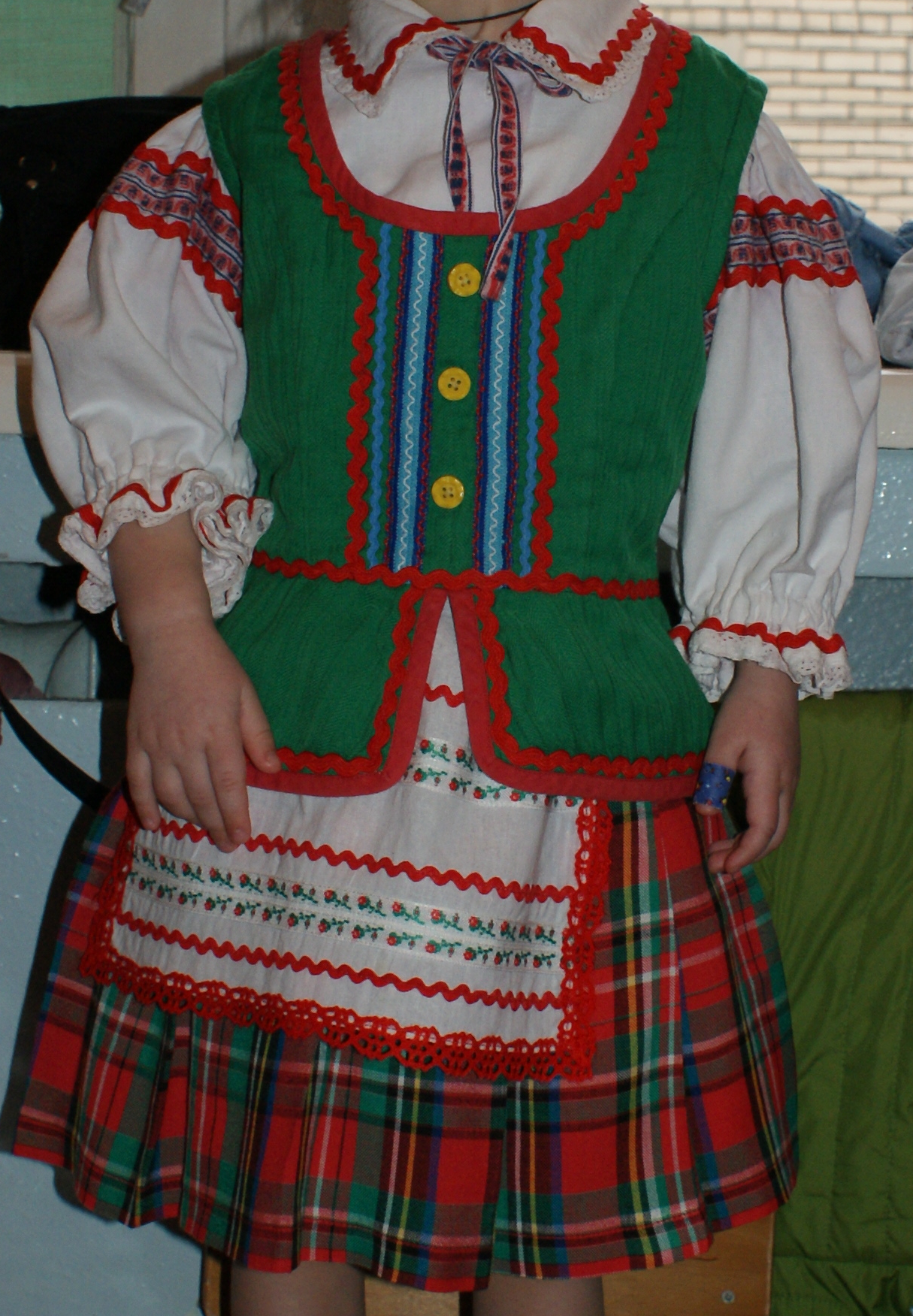 Children's Theatre Belarusian national costume